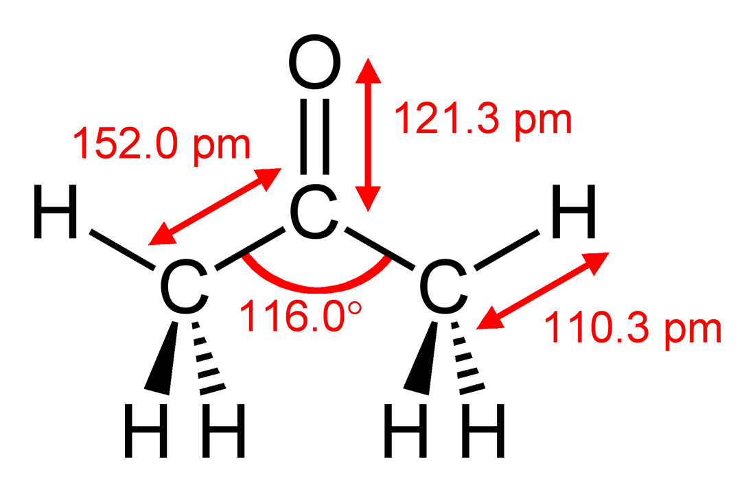 Structural formula of the acetone molecule, Me2CO, C3H6O. Structural information (determined by gas-phase electron diffraction and microwave spectroscopy) from CRC Handbook, 88th edition.